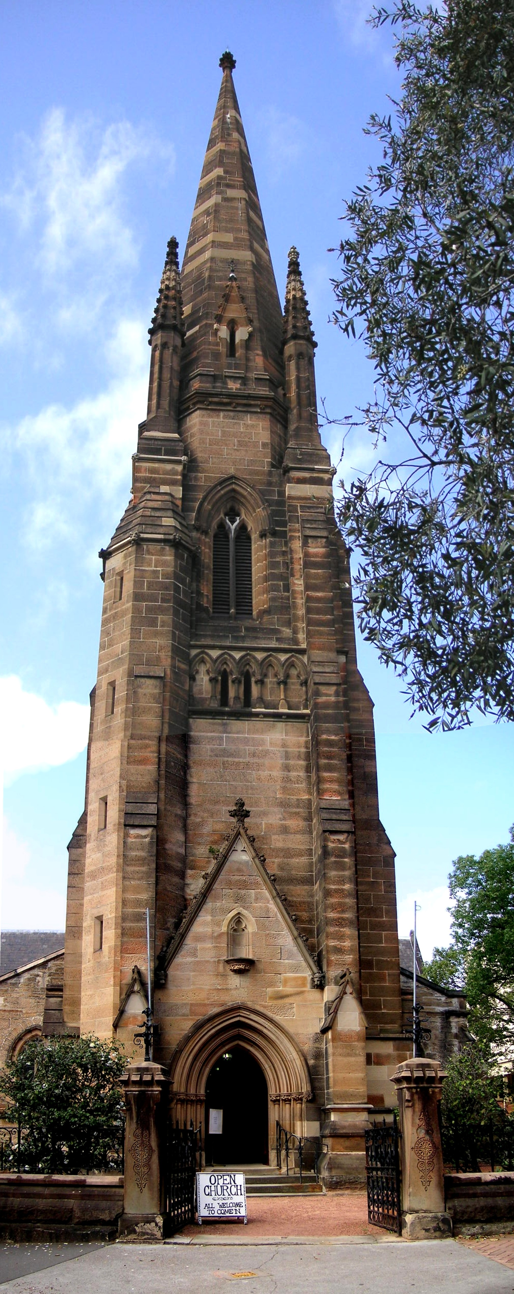 Australian Church, the spire of St John's Darlinghurst, (1871) architect Edmund Blacket. This photo has been assembled. The very bright new restoration stonework has been slightly dulled digitally.